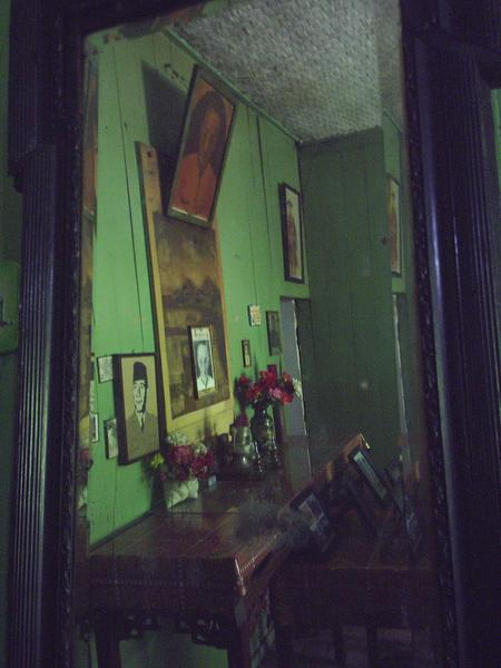 The house where Soekarno was kidnapped in Rengasdengklok